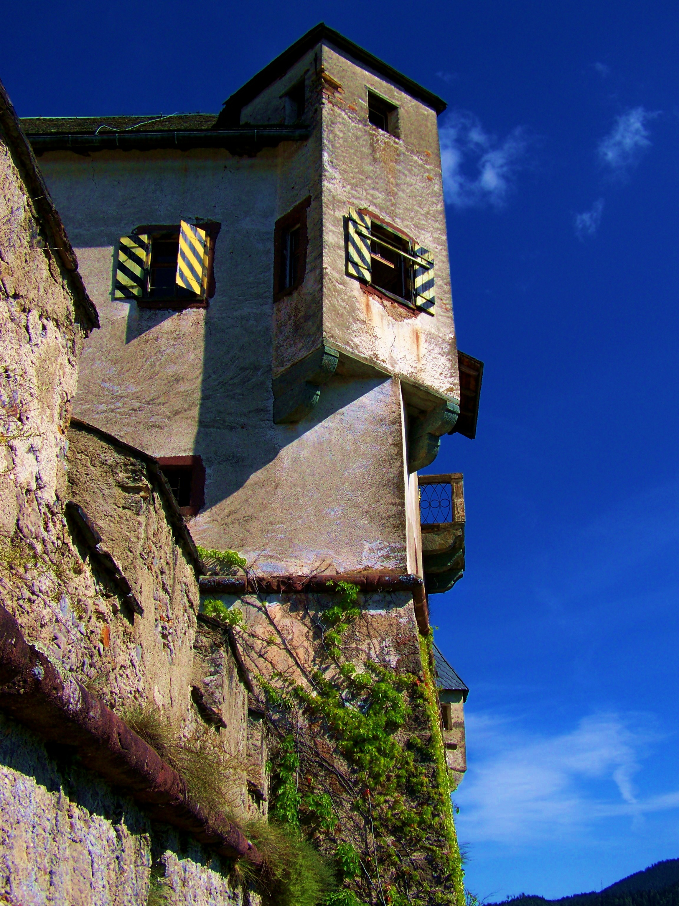 Hochosterwitz Castle, Austria